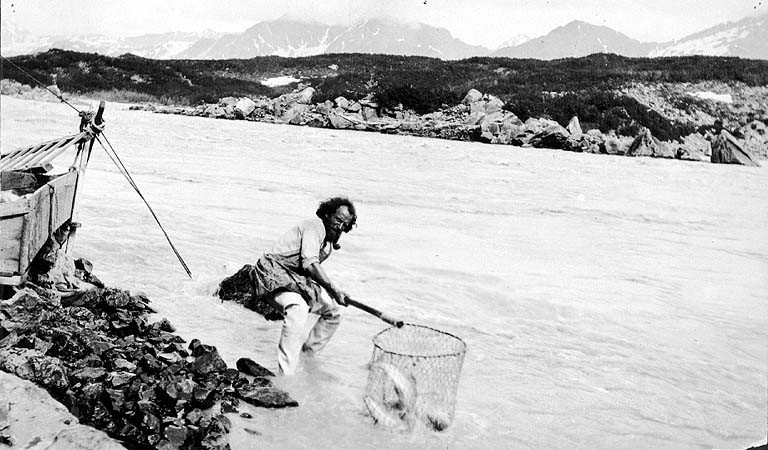 On verso of image: Dipping salmon from the Copper River in Alaska Subjects (LCTGM): Fishermen--Alaska--Copper River; Fishing--Alaska--Copper River Subjects (LCSH): Lift net fishing--Alaska--Copper River; Salmon fisheries--Alaska--Copper River; Copper River (Alaska)